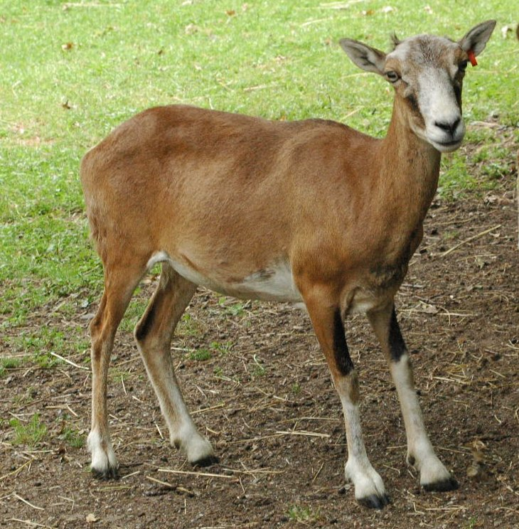 Ovis musimon female.